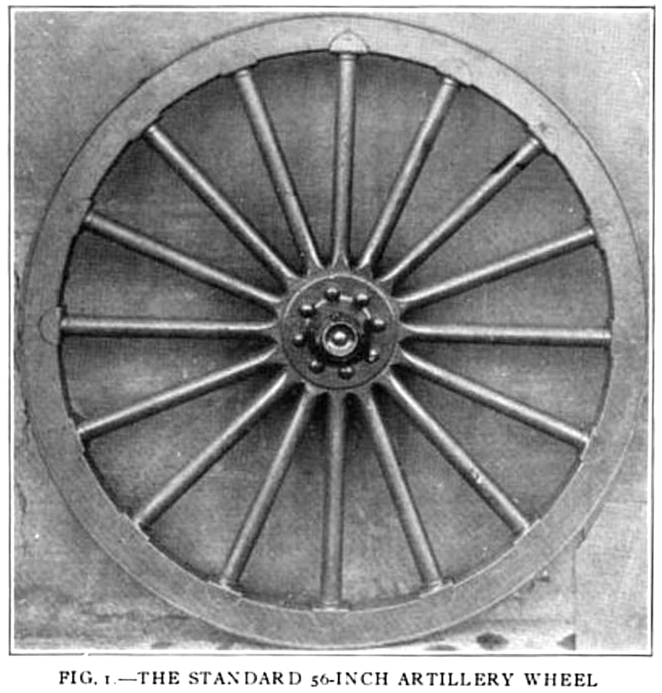 The 1917 standard 209-pound 56-inch artillery wheel of the US Army, with 16 spokes, 0.5-inch high-carbon-steel tires, 2.875-inch felloes (8 sawed or 2 bent), improved spoke shoes, and 0.25 inch per foot dishing.